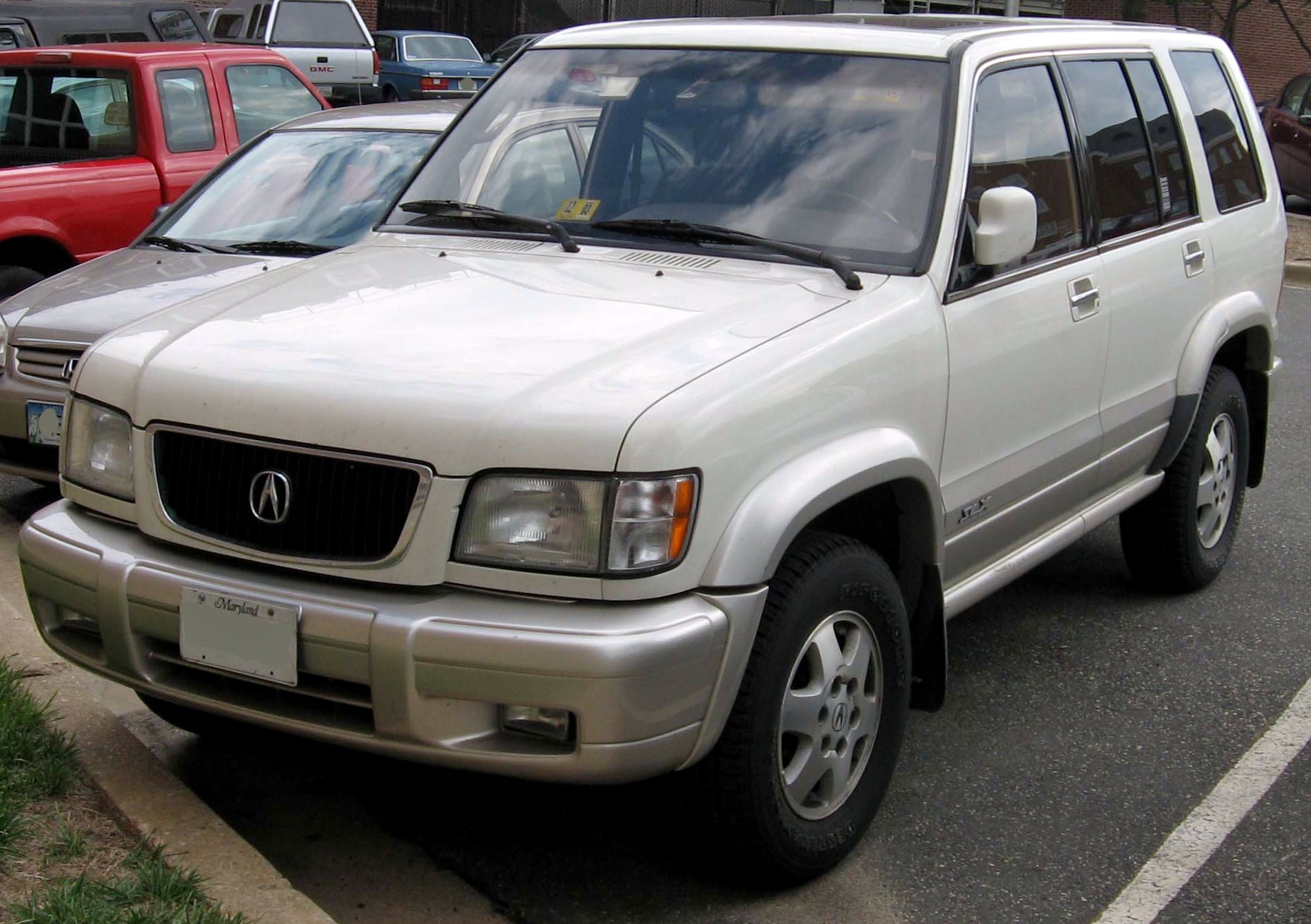 Acura SLX photographed in USA.